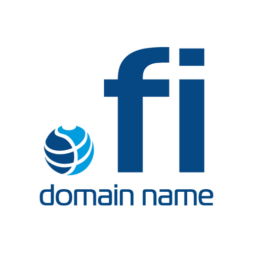 .fi domain logo